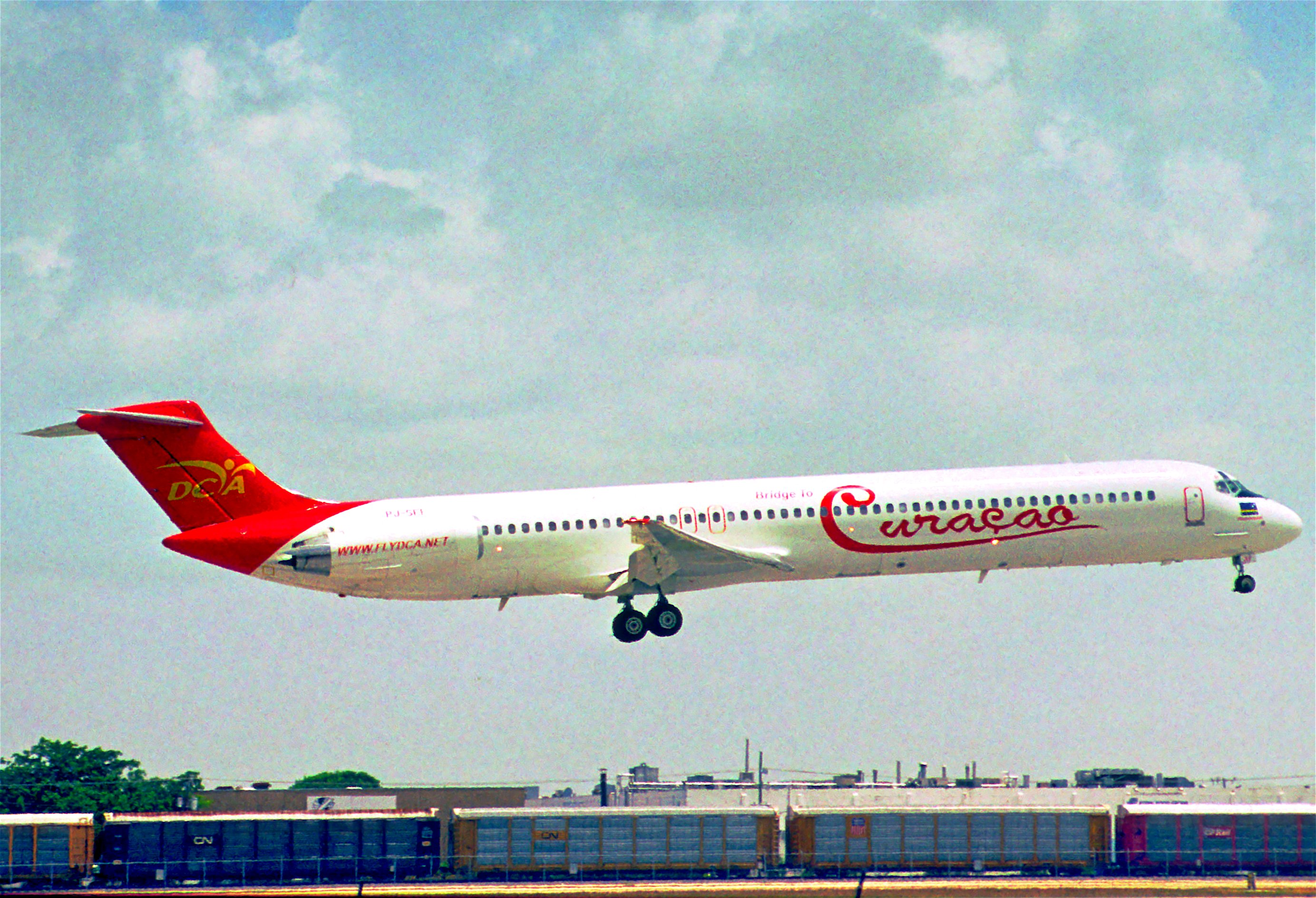 248br - DCA - Dutch Caribbean Airlines MD-82; PJ-SEF@MIA;21.07.2003